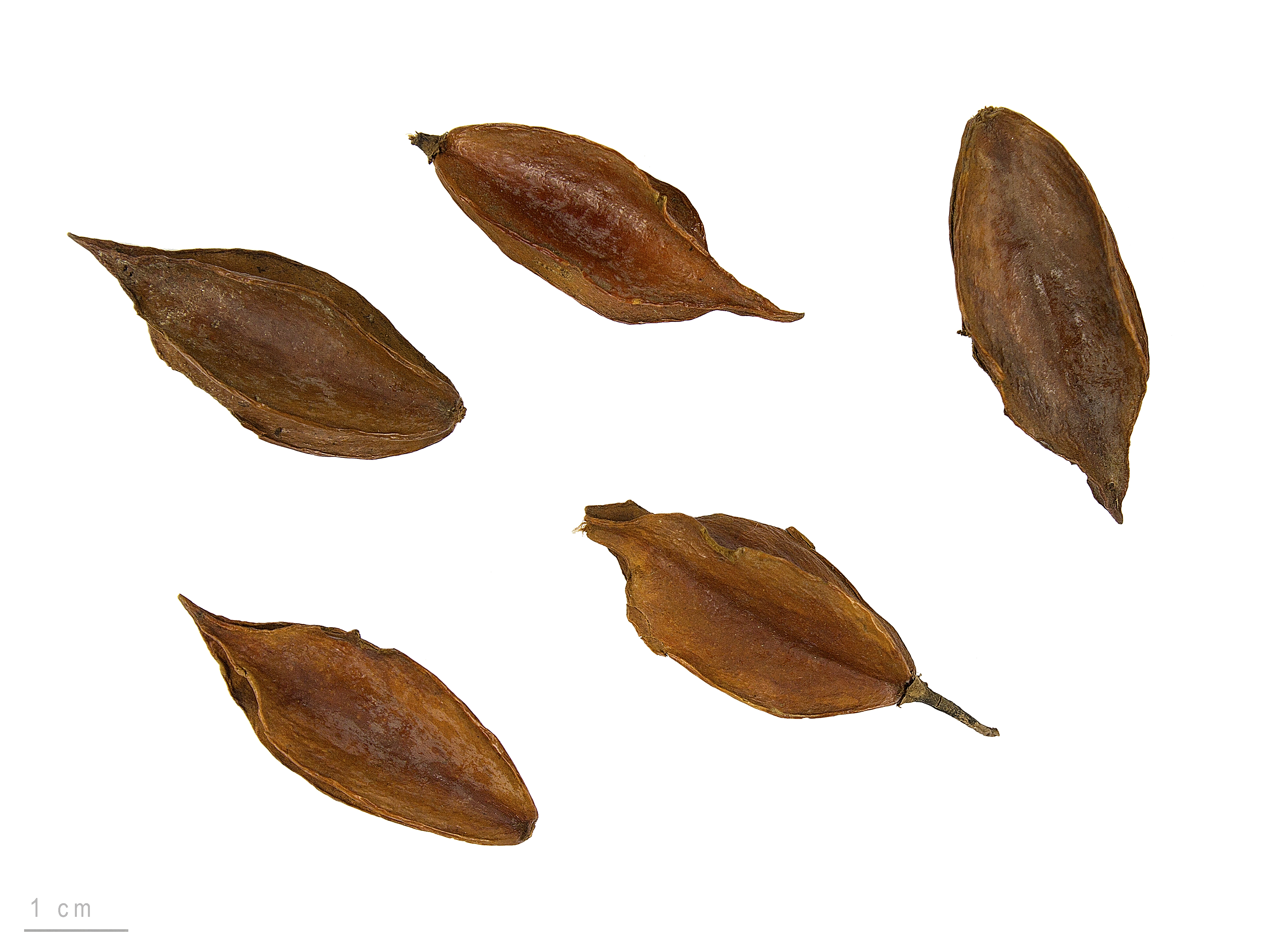 Combretum cacoucia, fruits